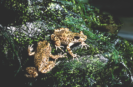 Majorcan midwife toad